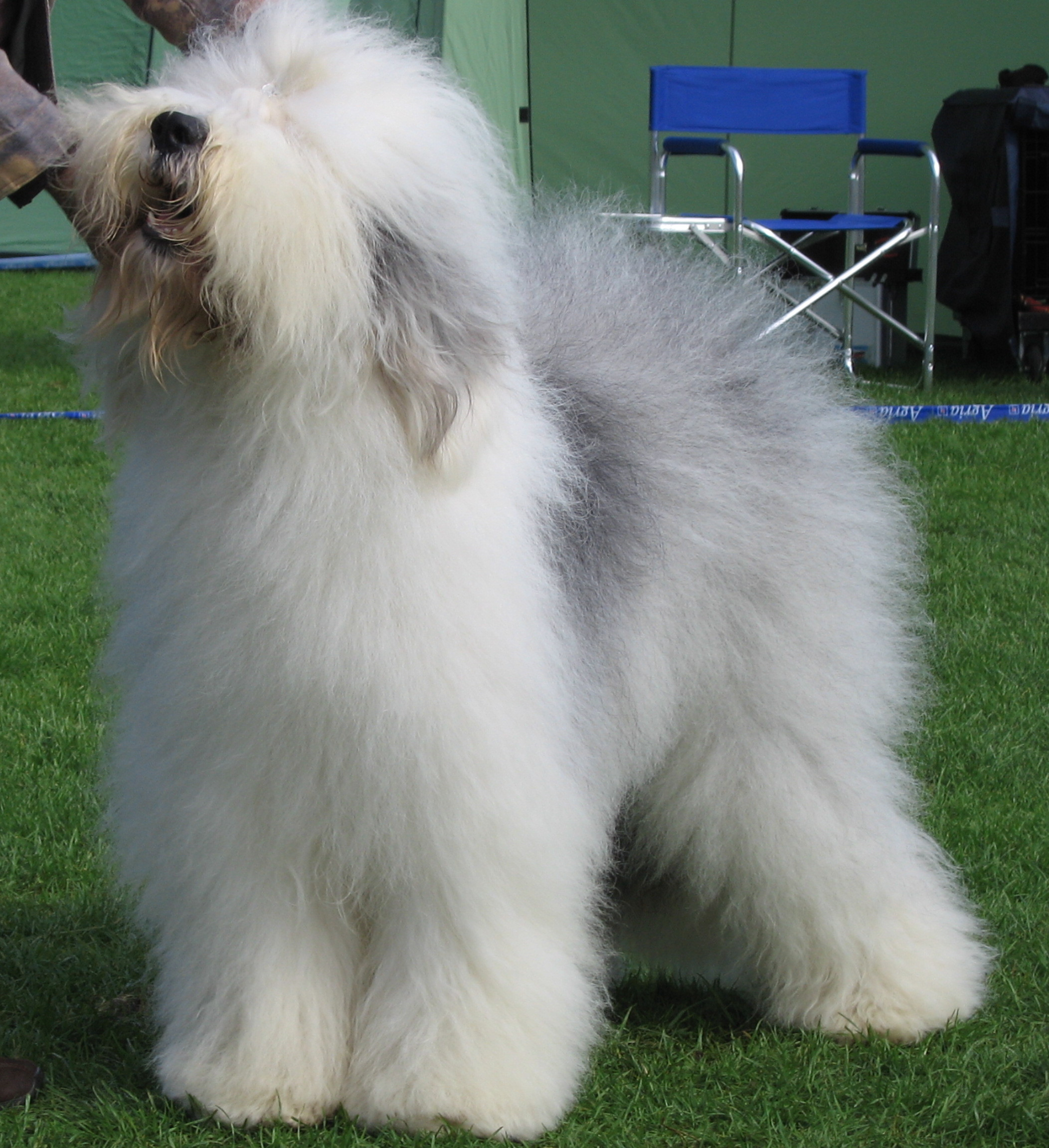 Old English Sheepdog Ch Bobbyclown's Dare for More, known as Pepsi. Topwinning oes in Norway 2006